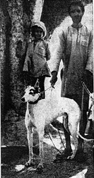 Older example of Rampur hound